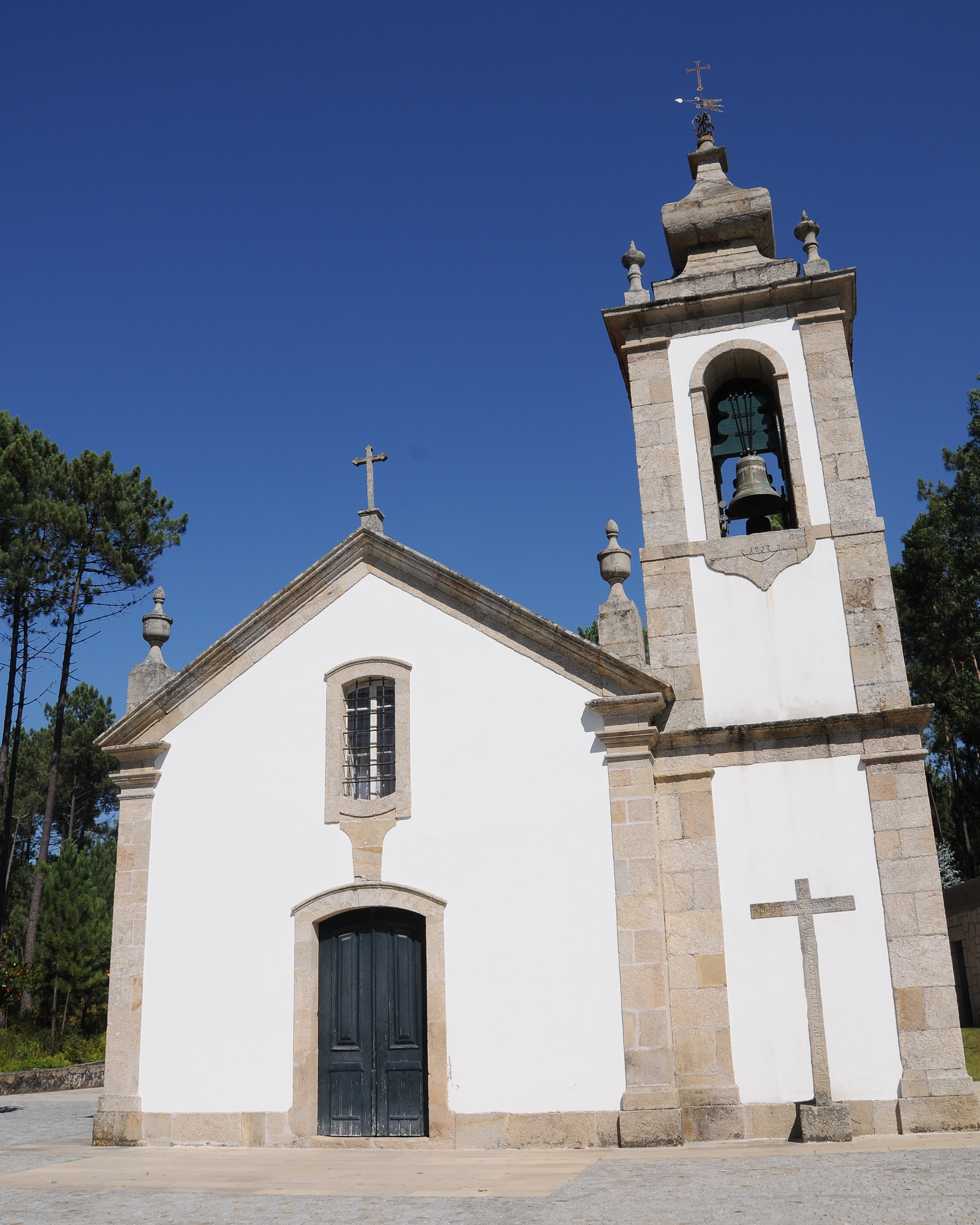 Bela Church, in Bela, Monção, Portugal